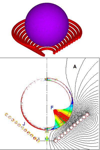 Model of conducting sphere levitating above cone inductor